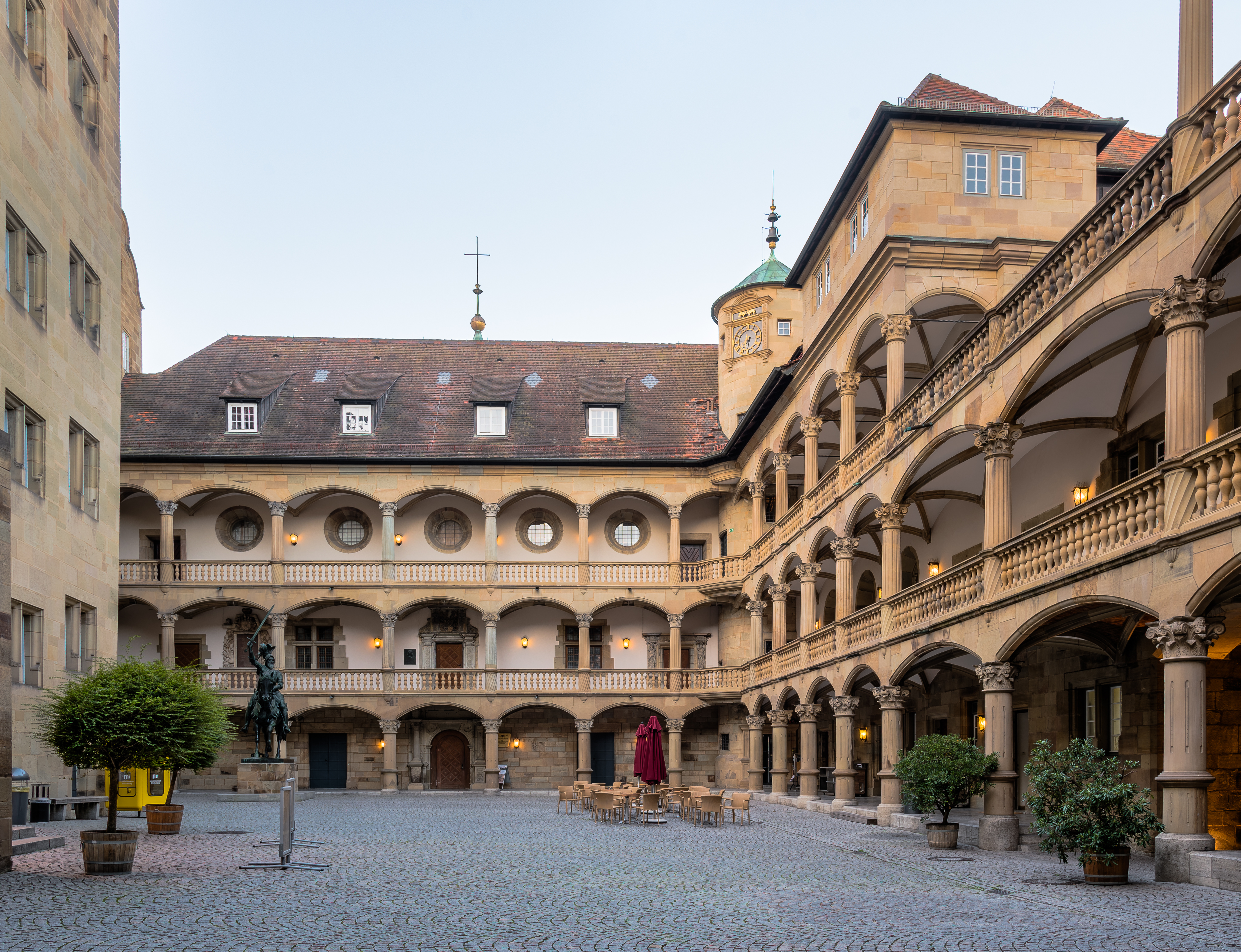 Inner courtyard of the Old Castle (Altes Schloss) in Stuttgart, Germany.